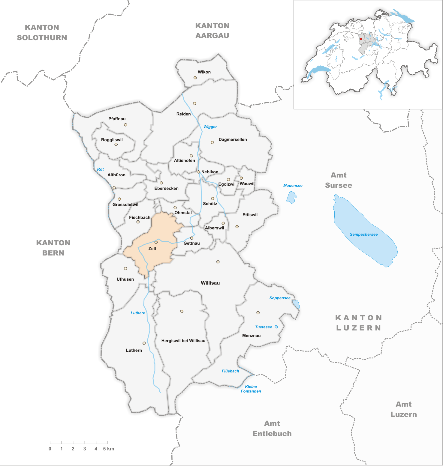 Municipality Zell